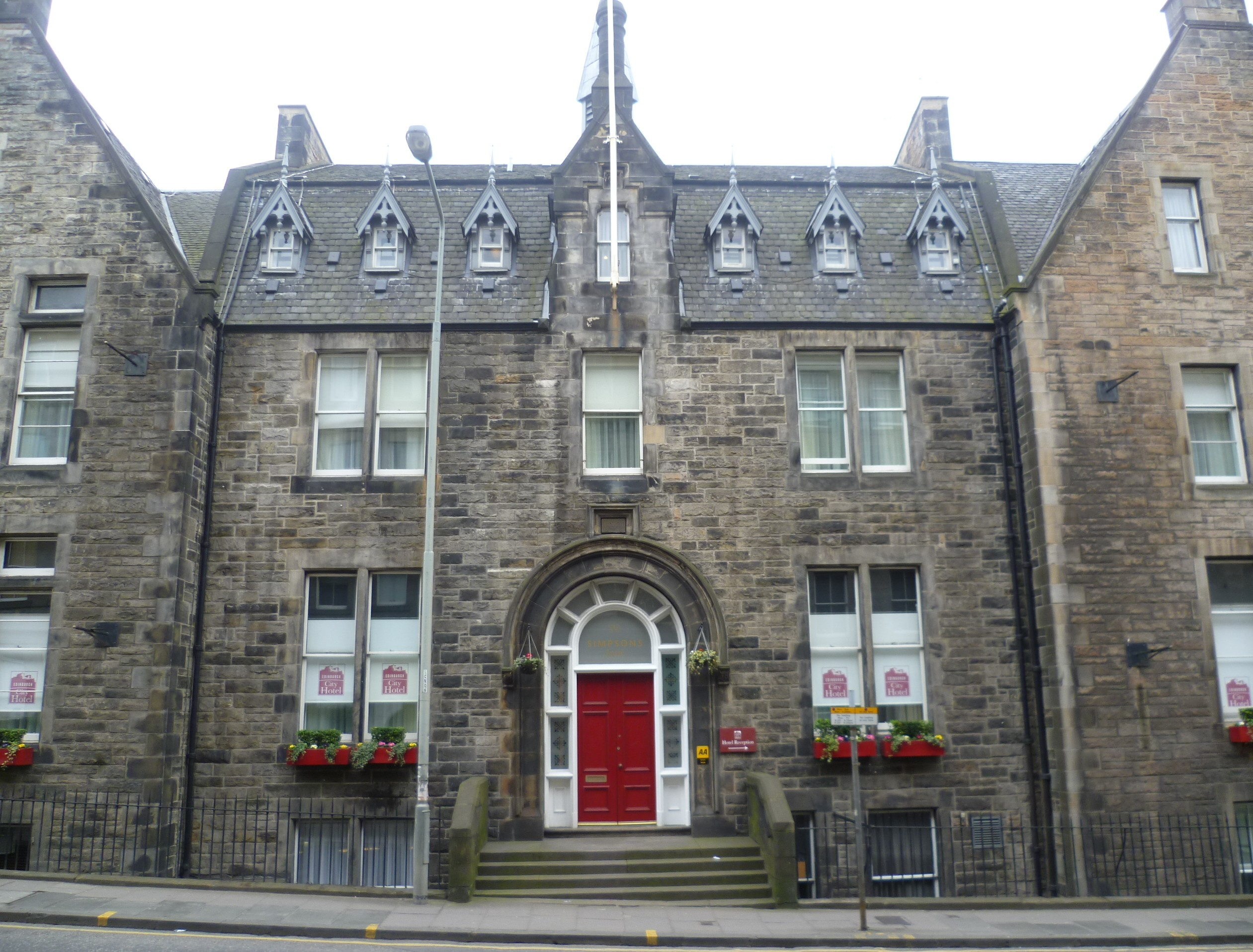 Former Simpson Memorial Maternity Hospital, Lauriston Place, Edinburgh